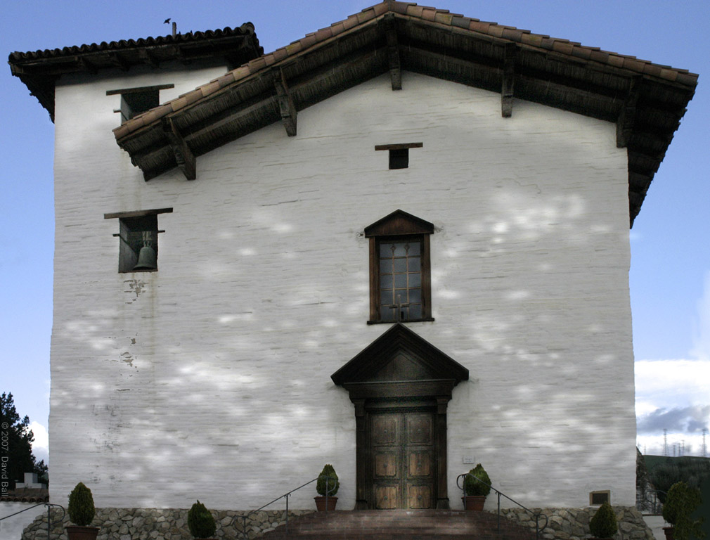 The rebuilt mission at Mission San Jose, California.